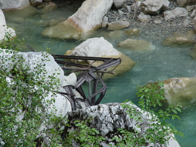 Remaining of the previous pedestrian bridge of the Estellié over the Verdon river.